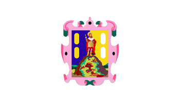 Flag of the State of San Luis Potosí, Mexico.